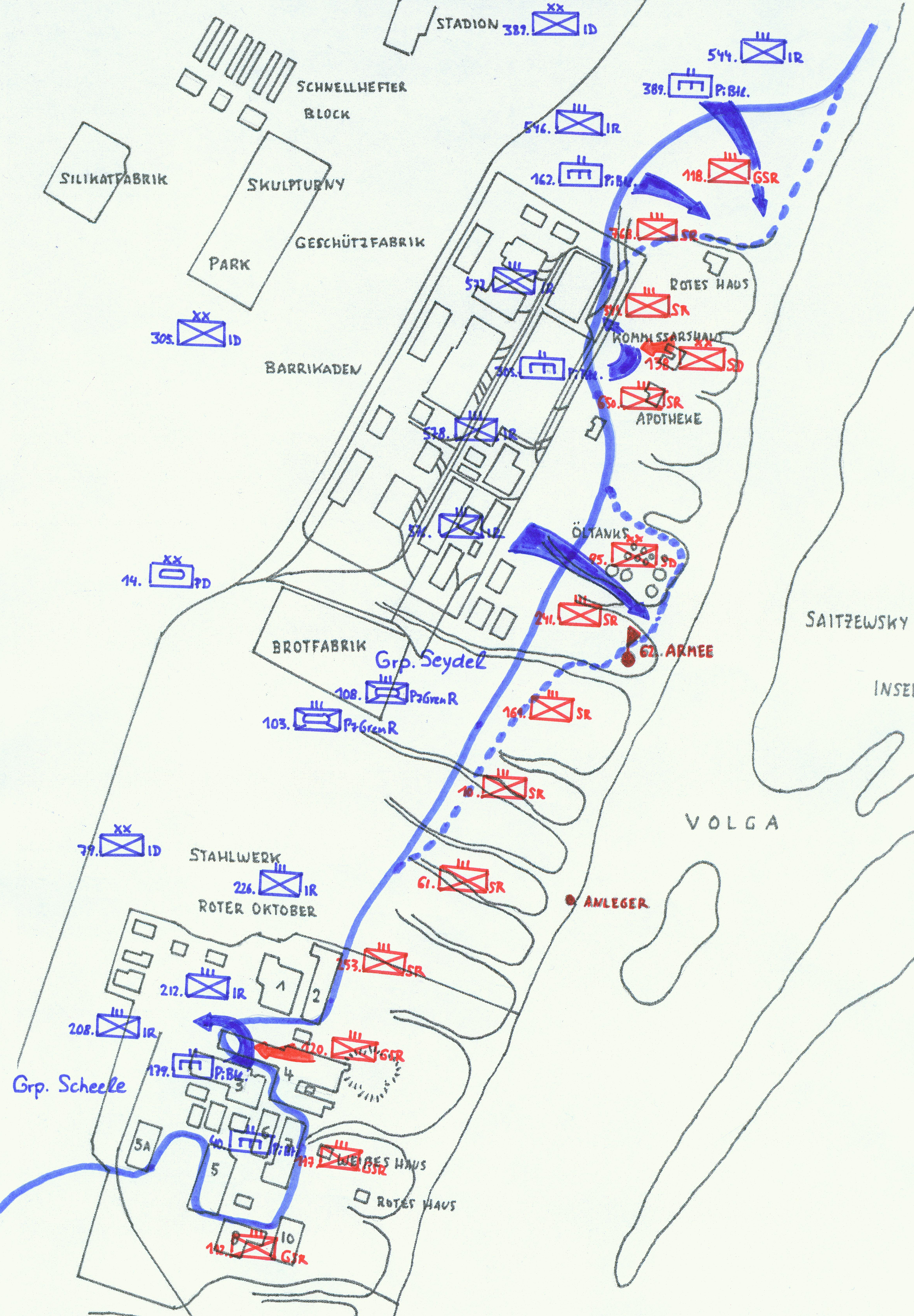 outline drawn according to Glantz combat map